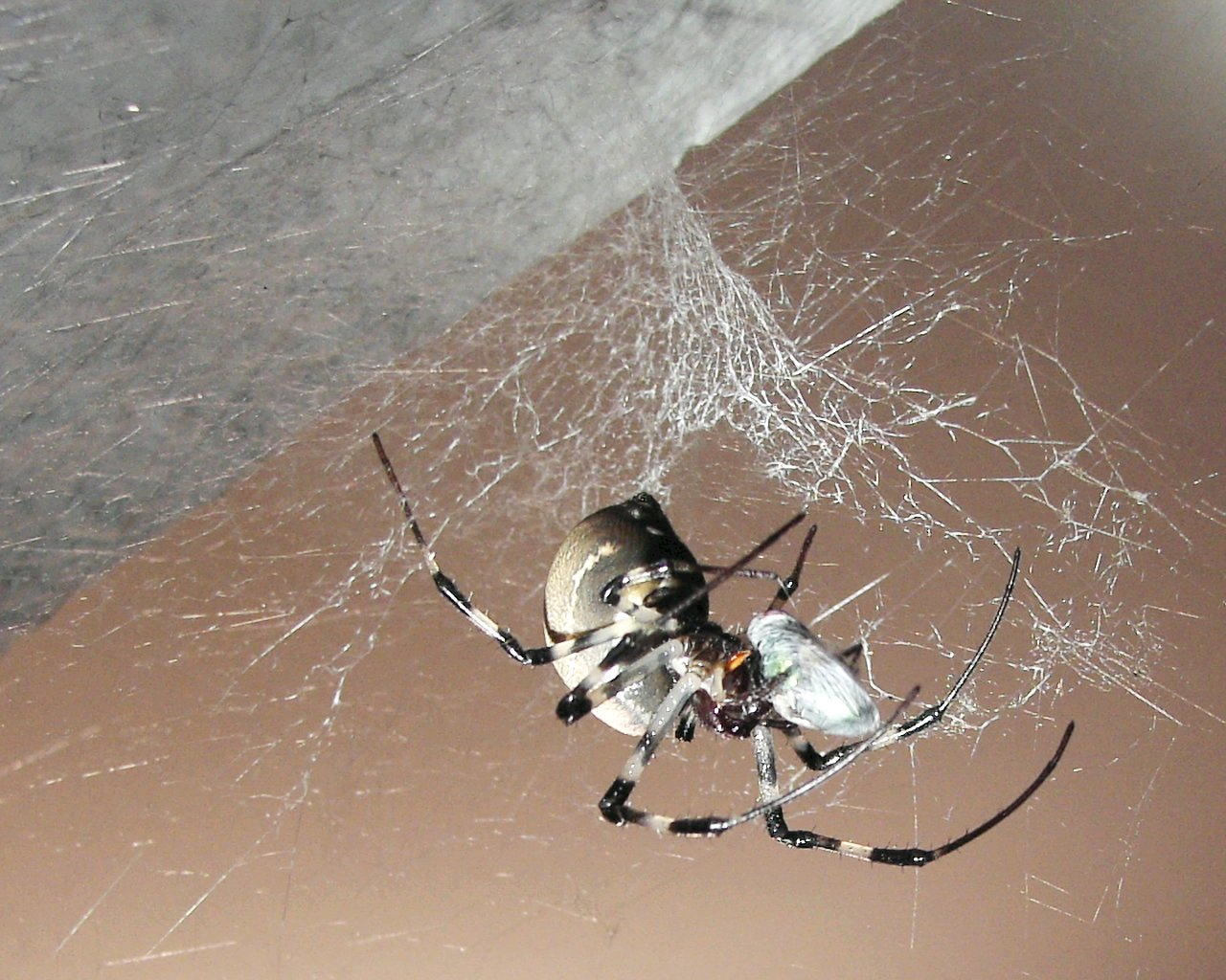 Nephilengys livida (from Cologne Zoo), wrapping and eating a green metallic fly in its retreat. The fly is possibly Lucilia caesar, see this picture.